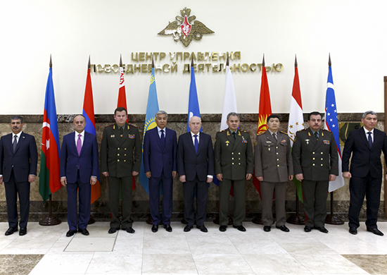 В Москве под председательством главы военного ведомства России генерала армии Сергея Шойгу прошло заседание Совета министров обороны государств – участников СНГ